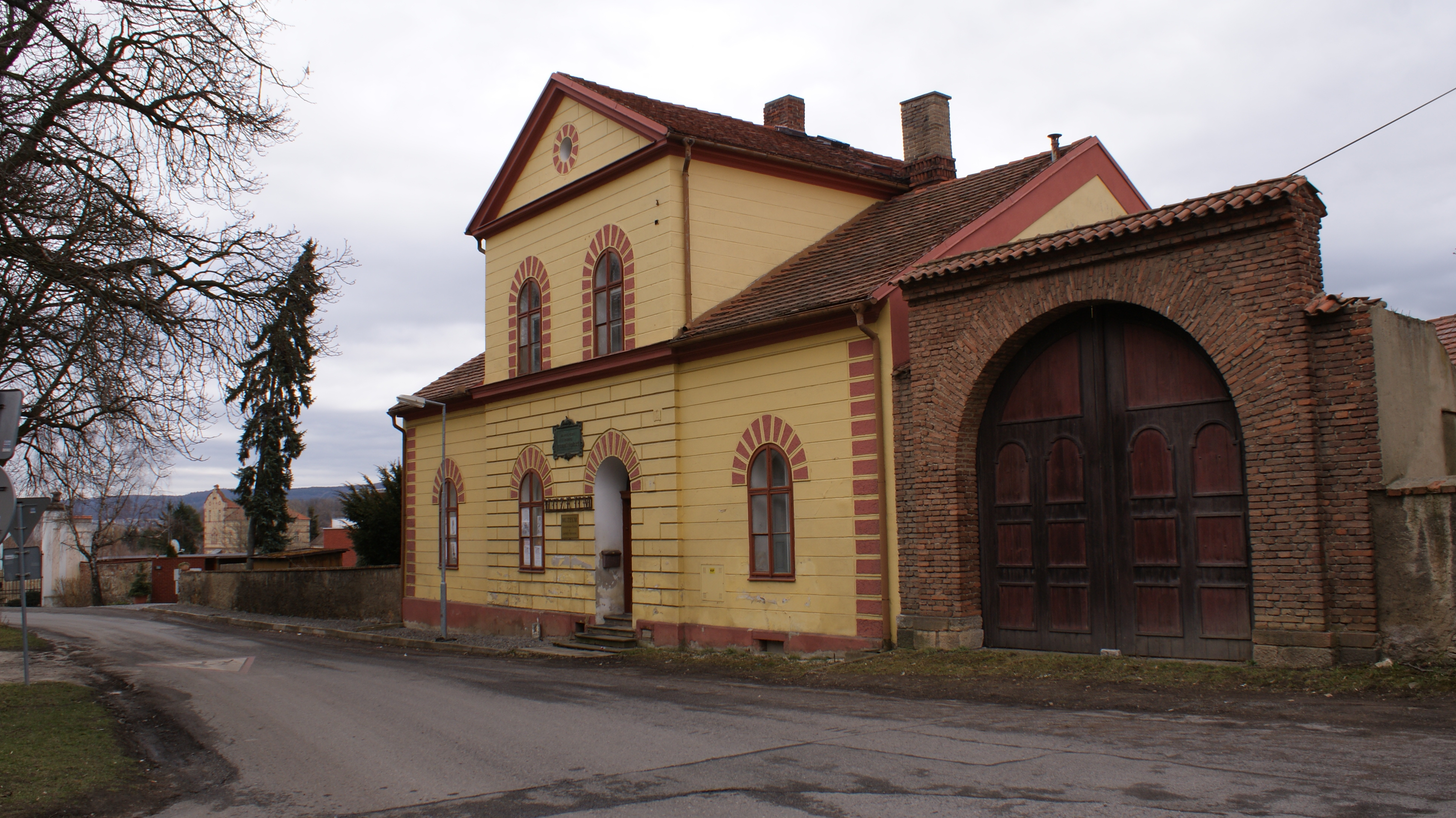 Museum Svatopluk Cech and Jarmila Novotna in Liten. The museum is located in the newly built premises memorable rectory near the church. Peter and Paul, where permanent exhibitions Jarmila Novotna and Svatopluk Cech.